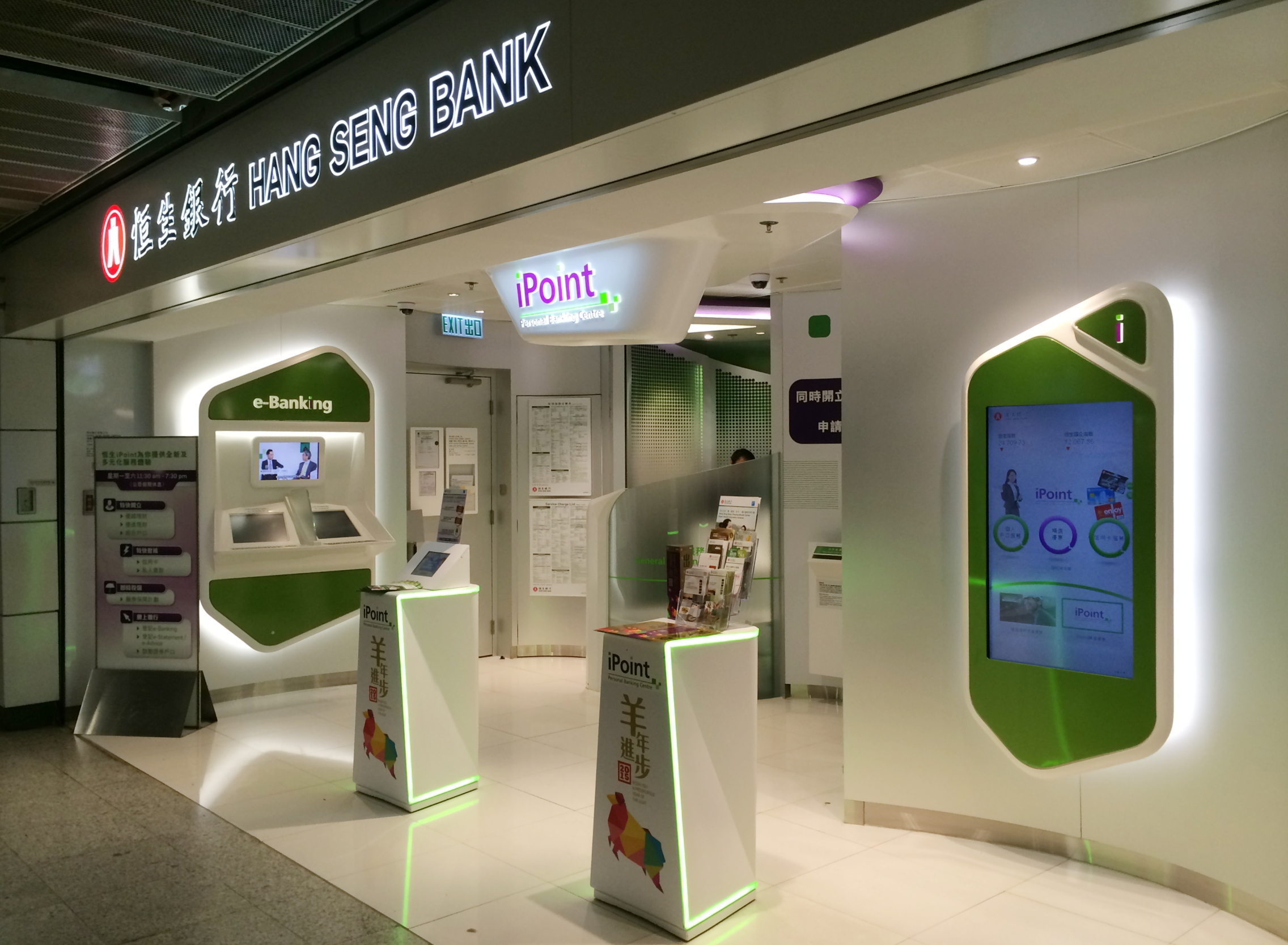 Hang Seng Bank in Central Station